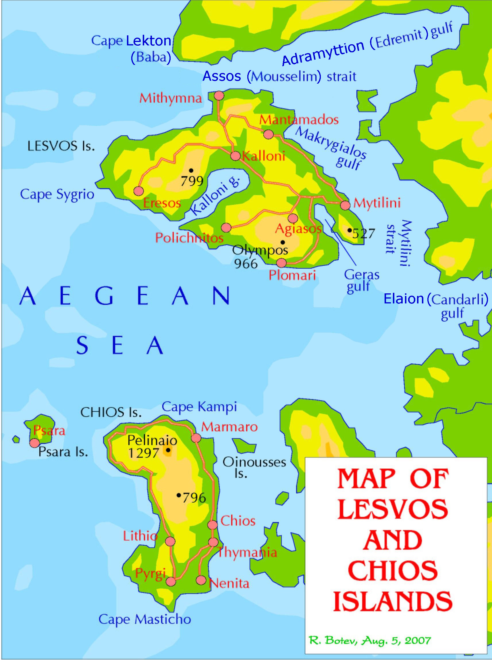 Map of Chios and Lesvos in English